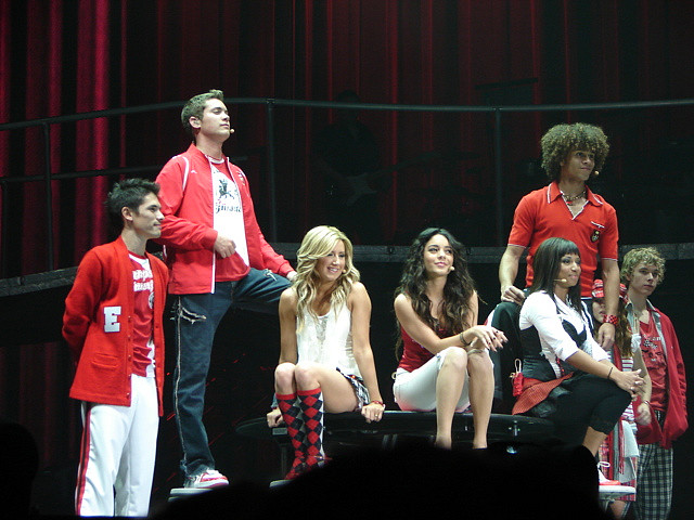 HSM Cast.